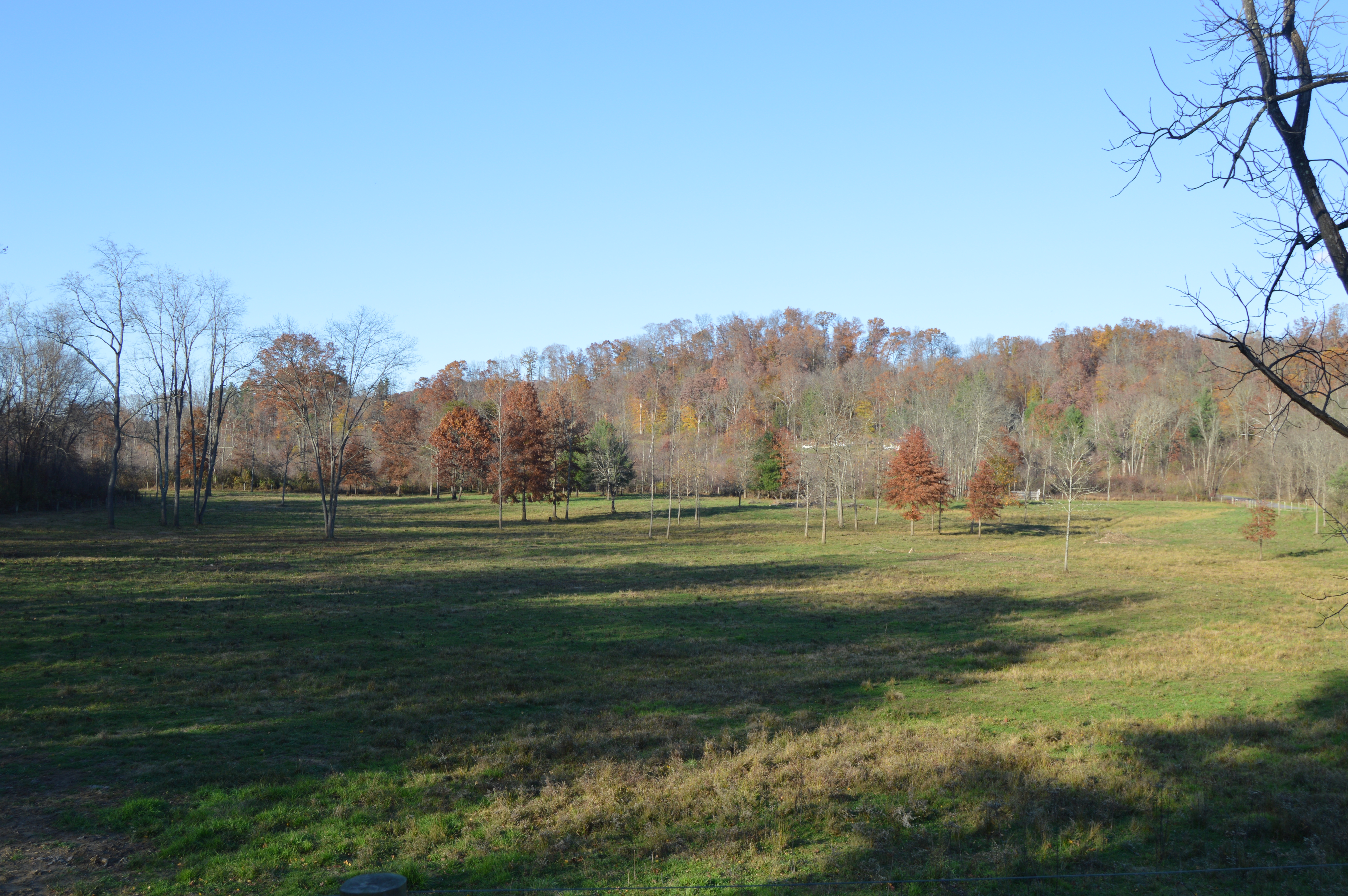 Fields along Myers Road north of Doanville in York Township, Athens County, Ohio, United States.